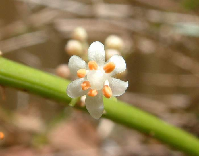 This Asaparagus Fern was blooming in my front yard here in Key West, Florida. The flowers are very small, and this image was taken in super-macro mode.Asparagus setaceus (Asparagus Fern) Flower